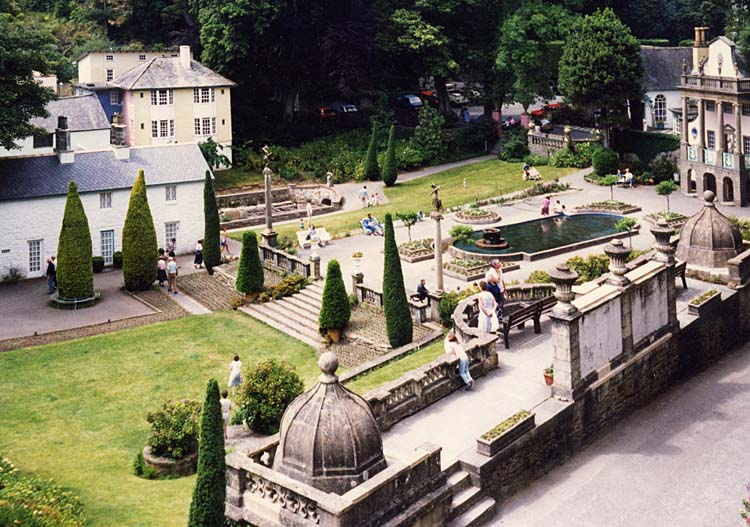 A part of Portmeirion, the real-life filming location for exterior shots of the Village, the fictional setting of the 1960s UK television series The Prisoner.